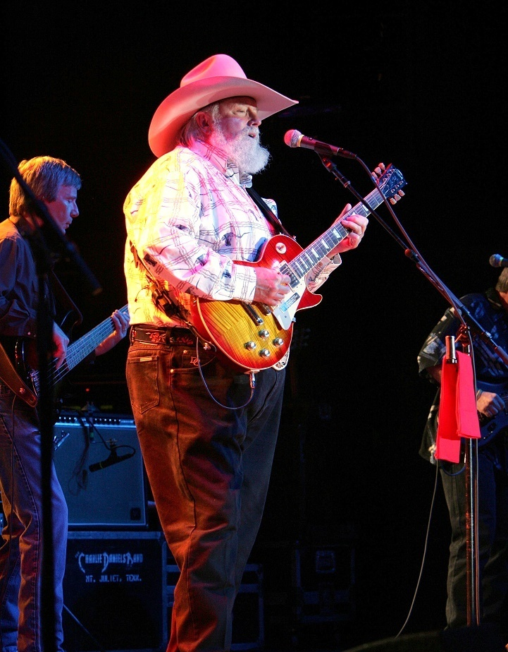 Dwight McCann, Charlie Daniels in concert at the Chumash Casino Resort in Santa Ynez, California.